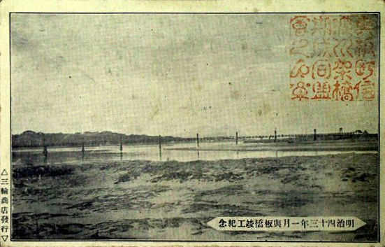 Postcard celebrating completion of the Yoita Bridge in Nagaoka, Niigata Prefecture in 1910